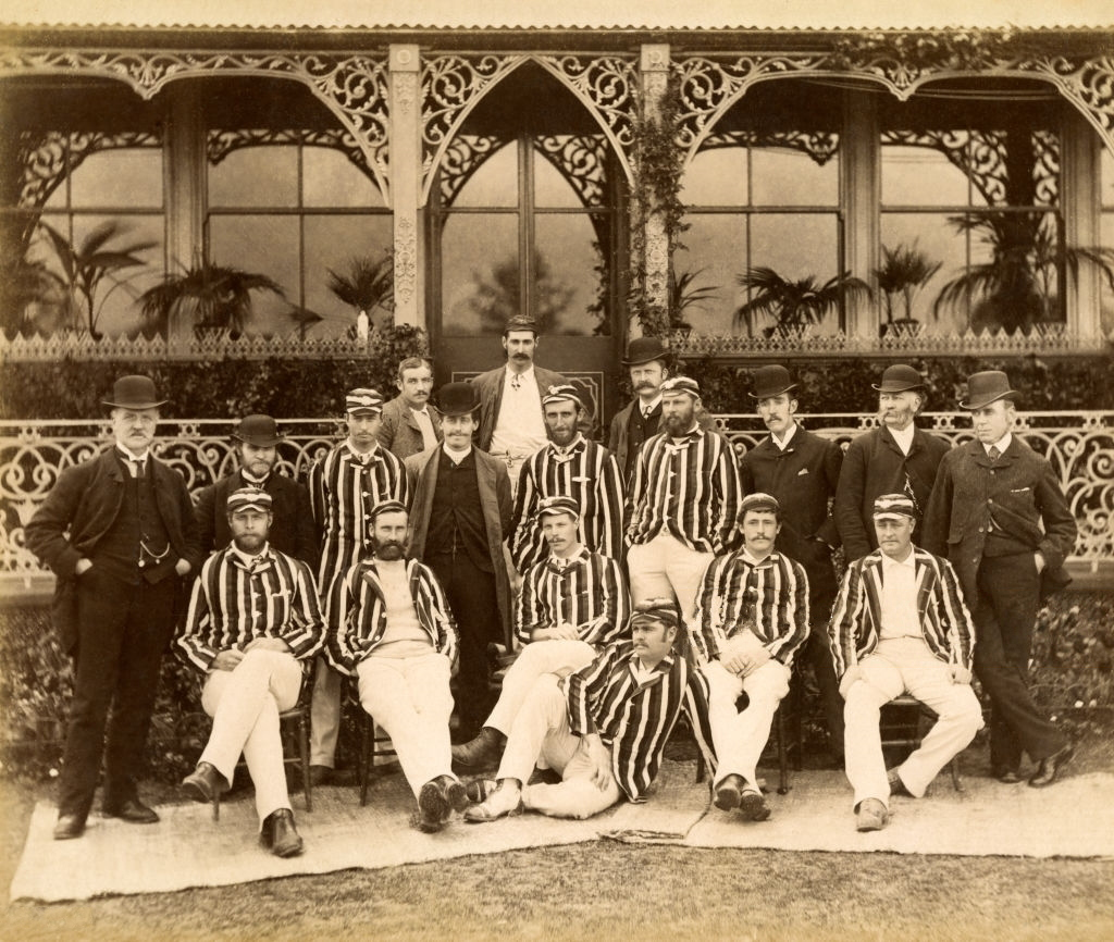 Scan of the 1886 Australia national cricket team Back row (l-r) George Giffen, Fred Spofforth, Major Benjamin Wardill (manager). Middle row (l-r) Frank Farrands (umpire), Bates (scorer), William Bruce, John McIlwraith, Tom Garrett, Edwin Evans, John Trumble, Salter (scorer), Bob Thoms (umpire). Front row (l-r) George Bonnor, Jack Blackham, Henry Scott, Affie Jarvis, Sammy Jones, George Palmer